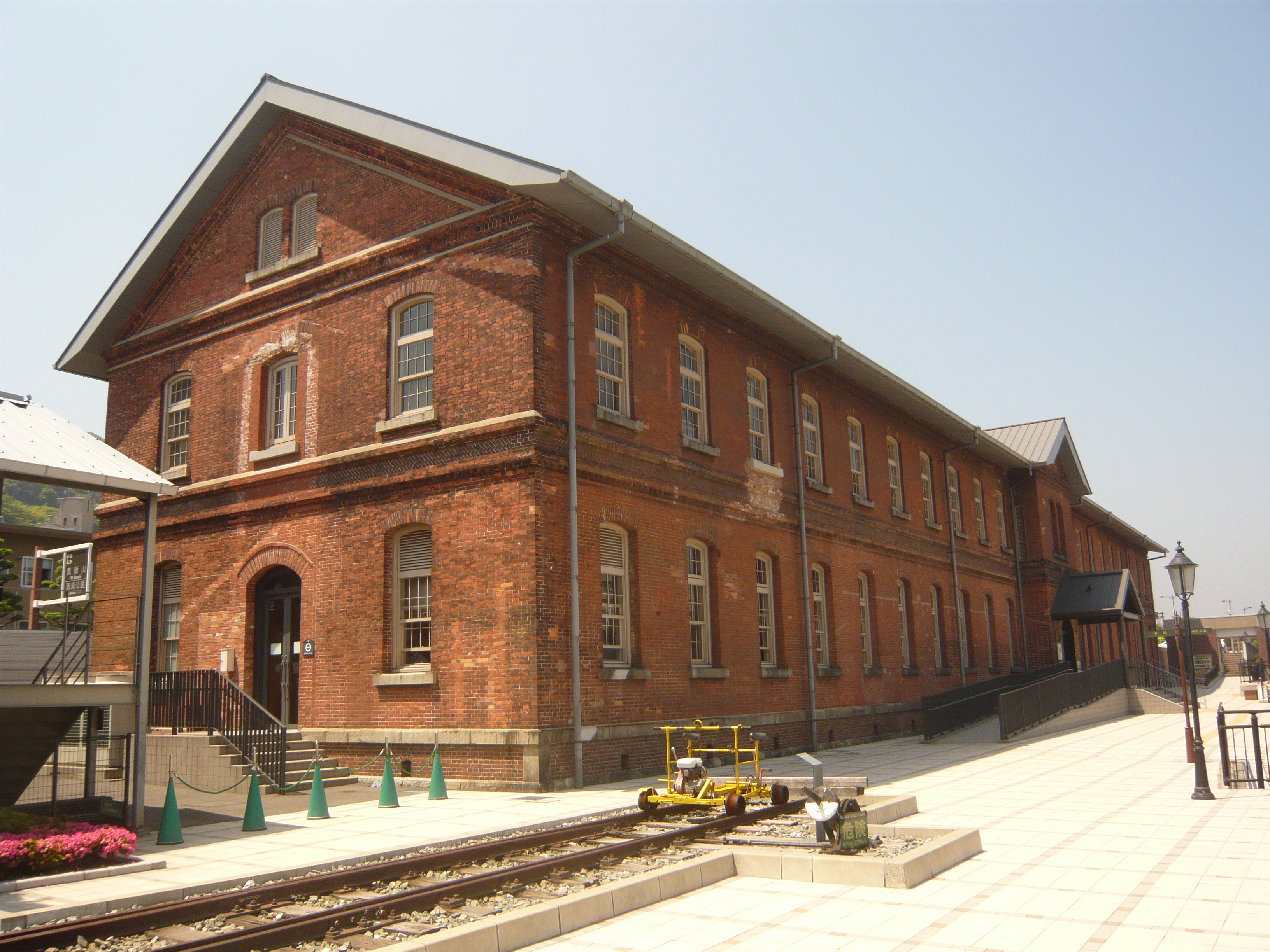 Kyushu Railway History Museum, Kitakyushu, Fukuoka, Japan